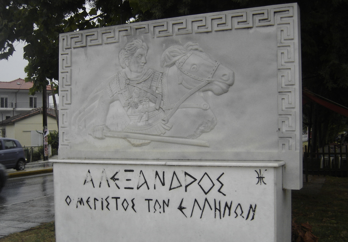 A memorial plaque for Alexander the Great, at Peristassi, Paralia Municipality.